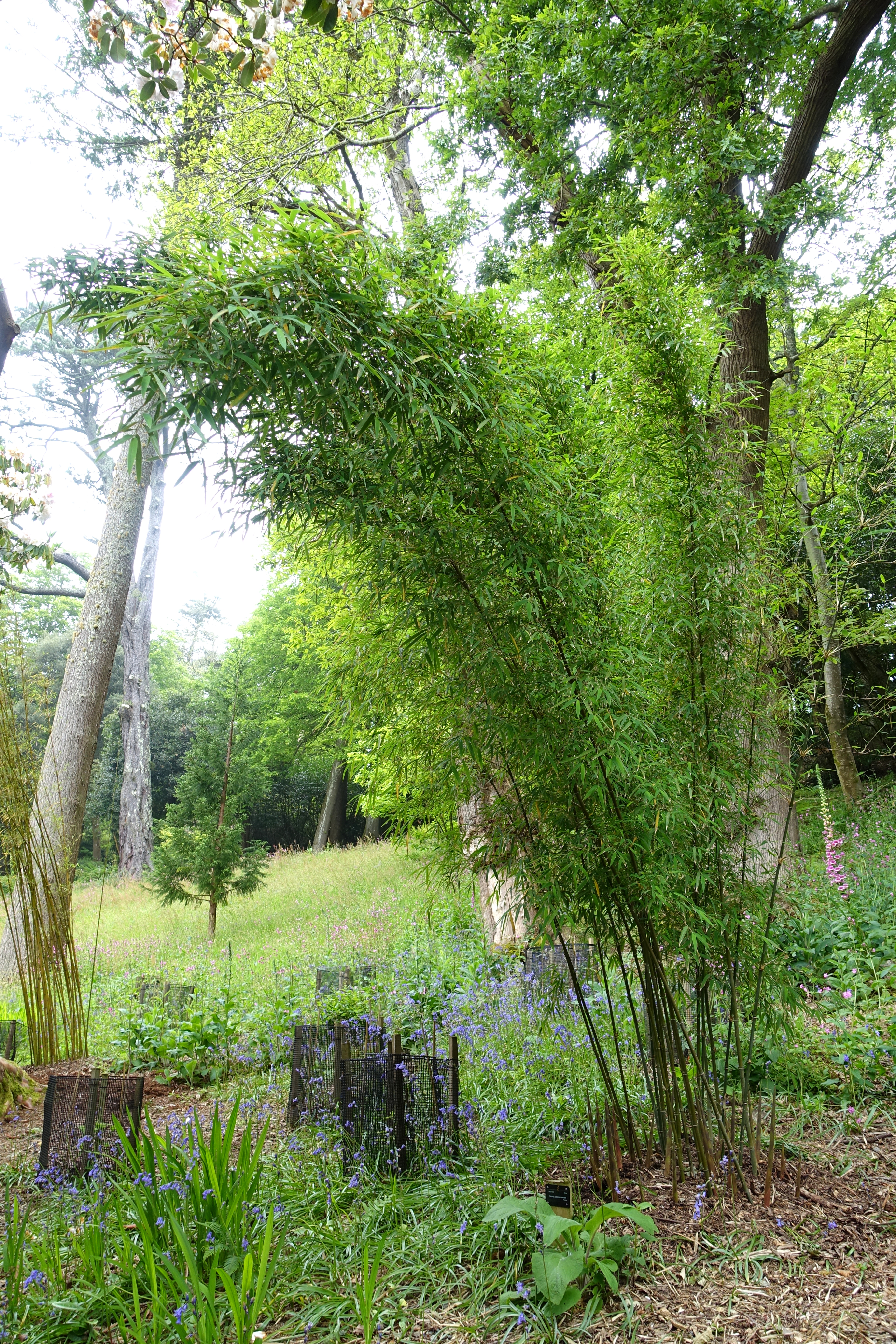 Horticultural specimen in Trebah Garden - Cornwall, England.